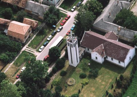 Mocsa, Hungary, aerialphotography